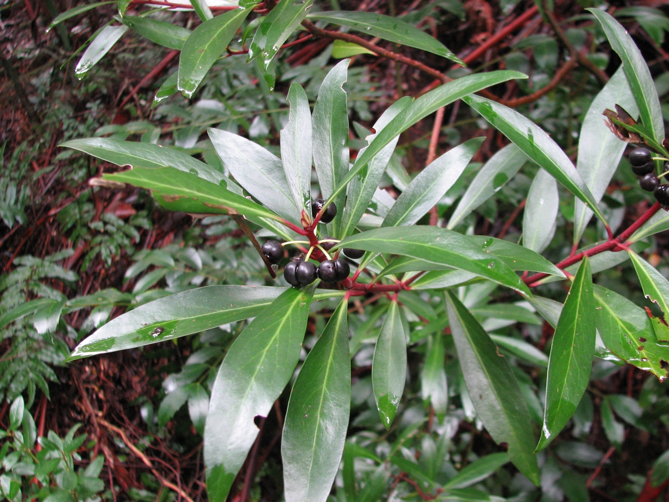 Tasmannia lanceolata, Mount Donna Buang, Victoria, Australia